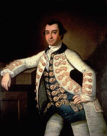 Courtesy of the Gibbes Museum of Art, Charleston, South Carolina.